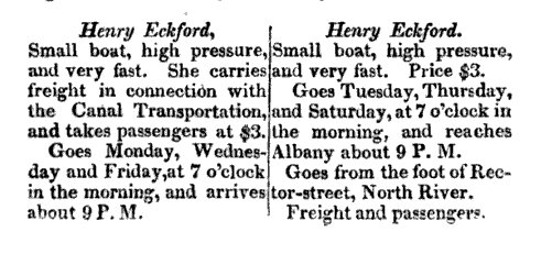 An advertisement for the steamboat Henry Eckford which appeared in The Northern Traveller, 1825.